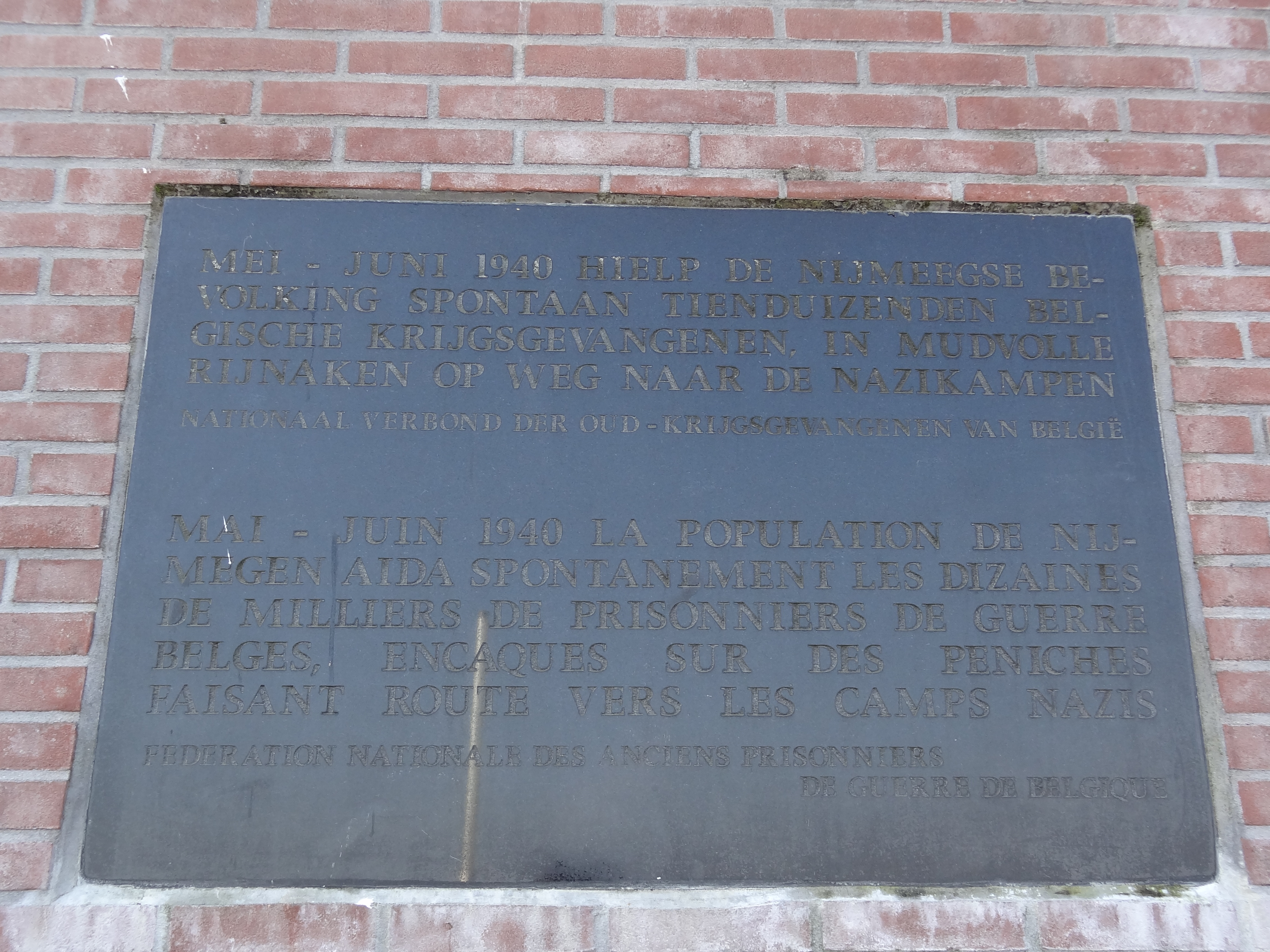 Second World War memorial in the retaining wall of the Waalkade near the Kromme Elleboog in Nijmegen, The Netherlands